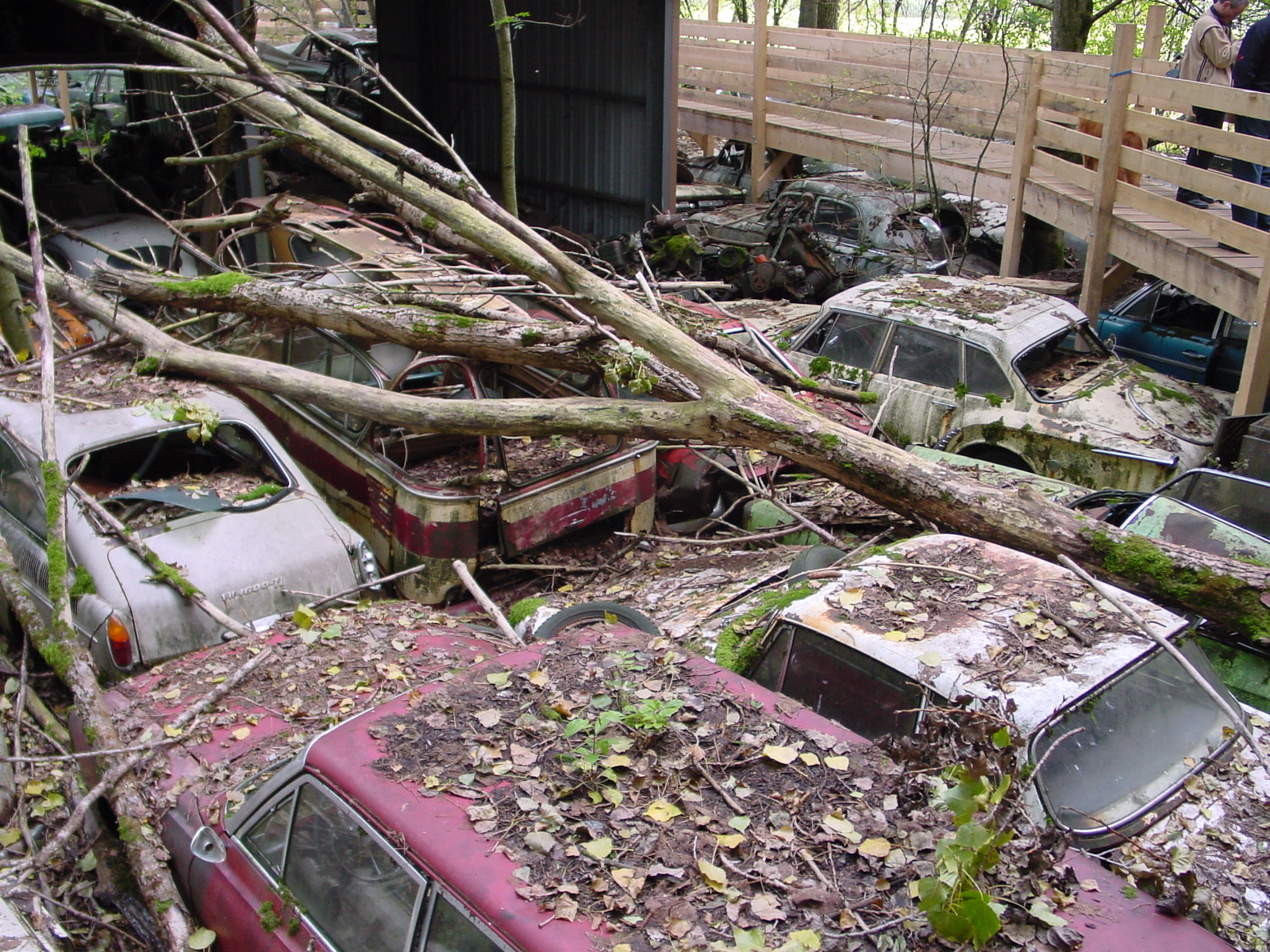 Object at the carjunk in Kaufdorf (Guerbetal) (Switzerland) Cars hidden in the forest.